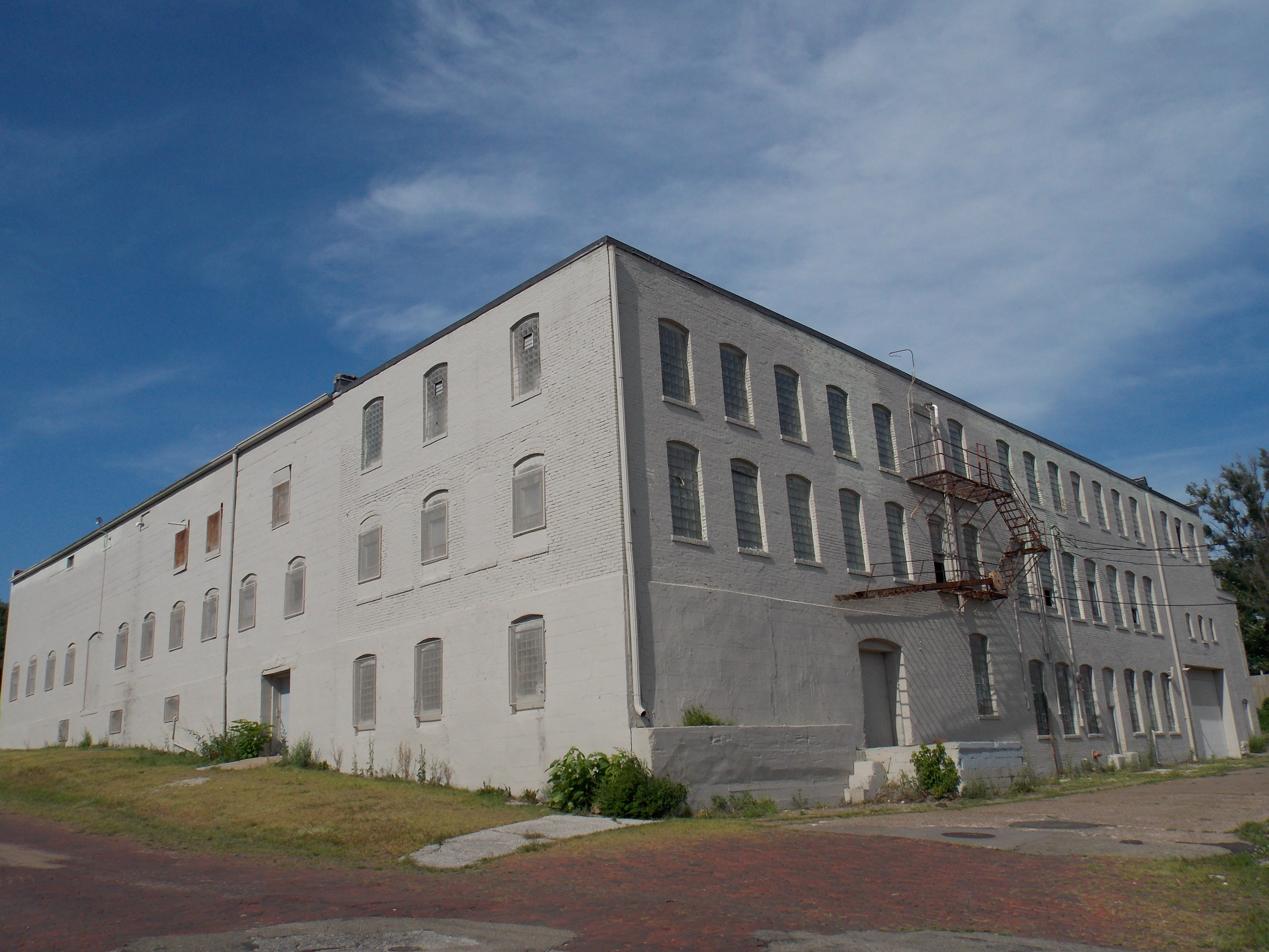 The backside of the Littig Bros Mengel & Klint Eagle Brewery in Davenport, Iowa. It is listed on the National Register of Historic Places.